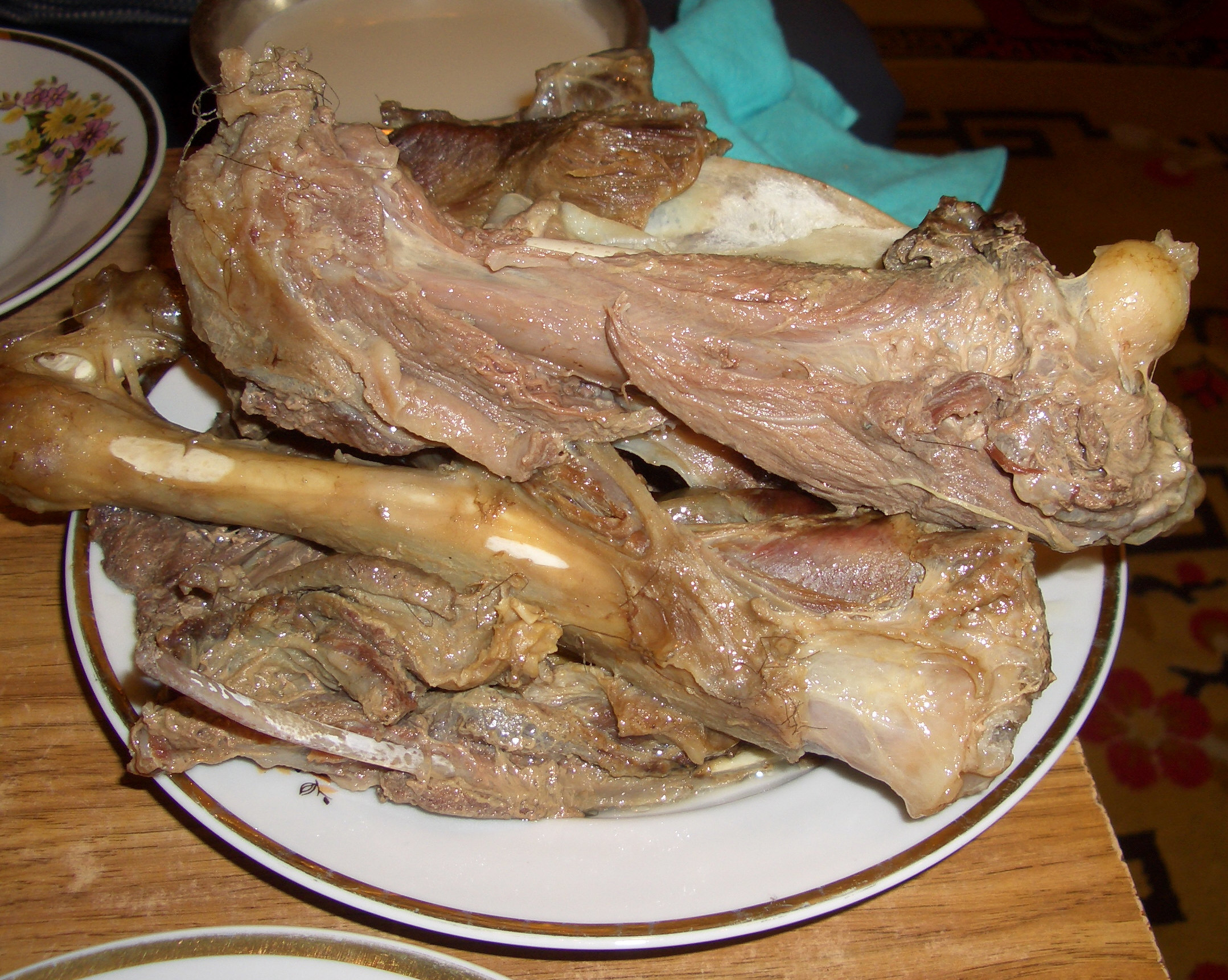 Chanasan makh, Boiled meat with bones.